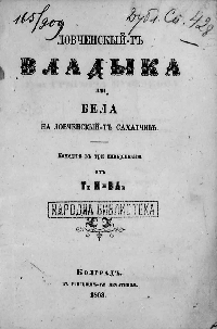 Title page of the first Bulgarian comedy "Ловченскый-тъ владыка или Бела на ловченскый-тъ сахатчиѭ" by Theodosij Ikonomov (1836-1872).